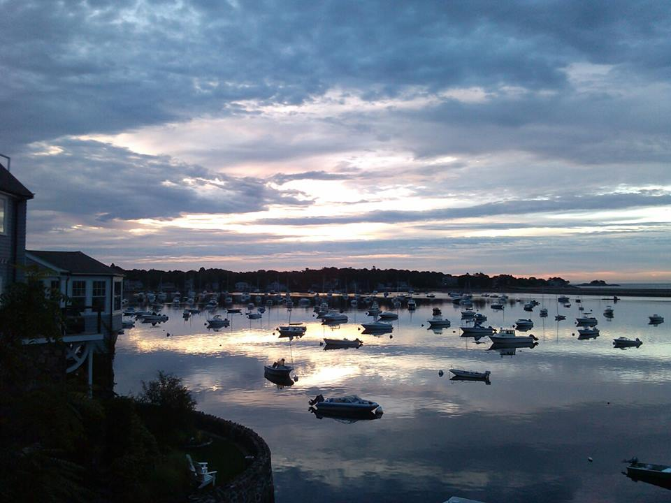 Marblehead Harbor Morning